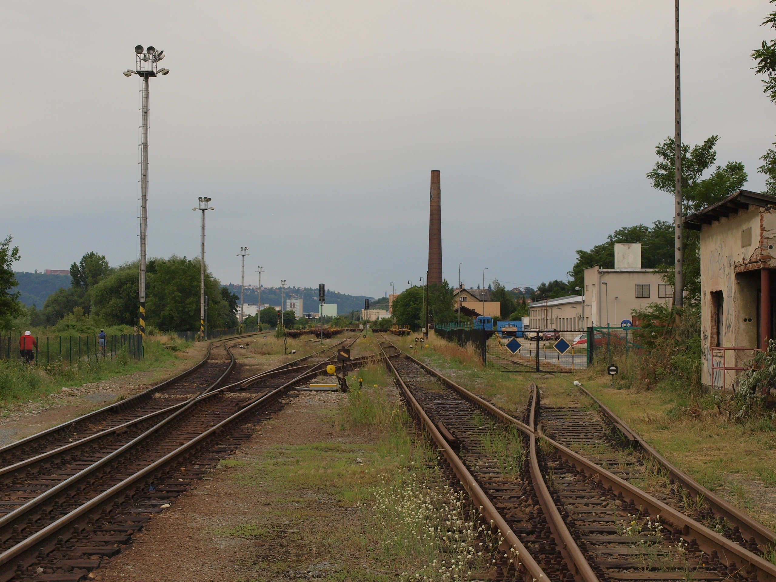 View towards Prague, Praha-Modřany train station